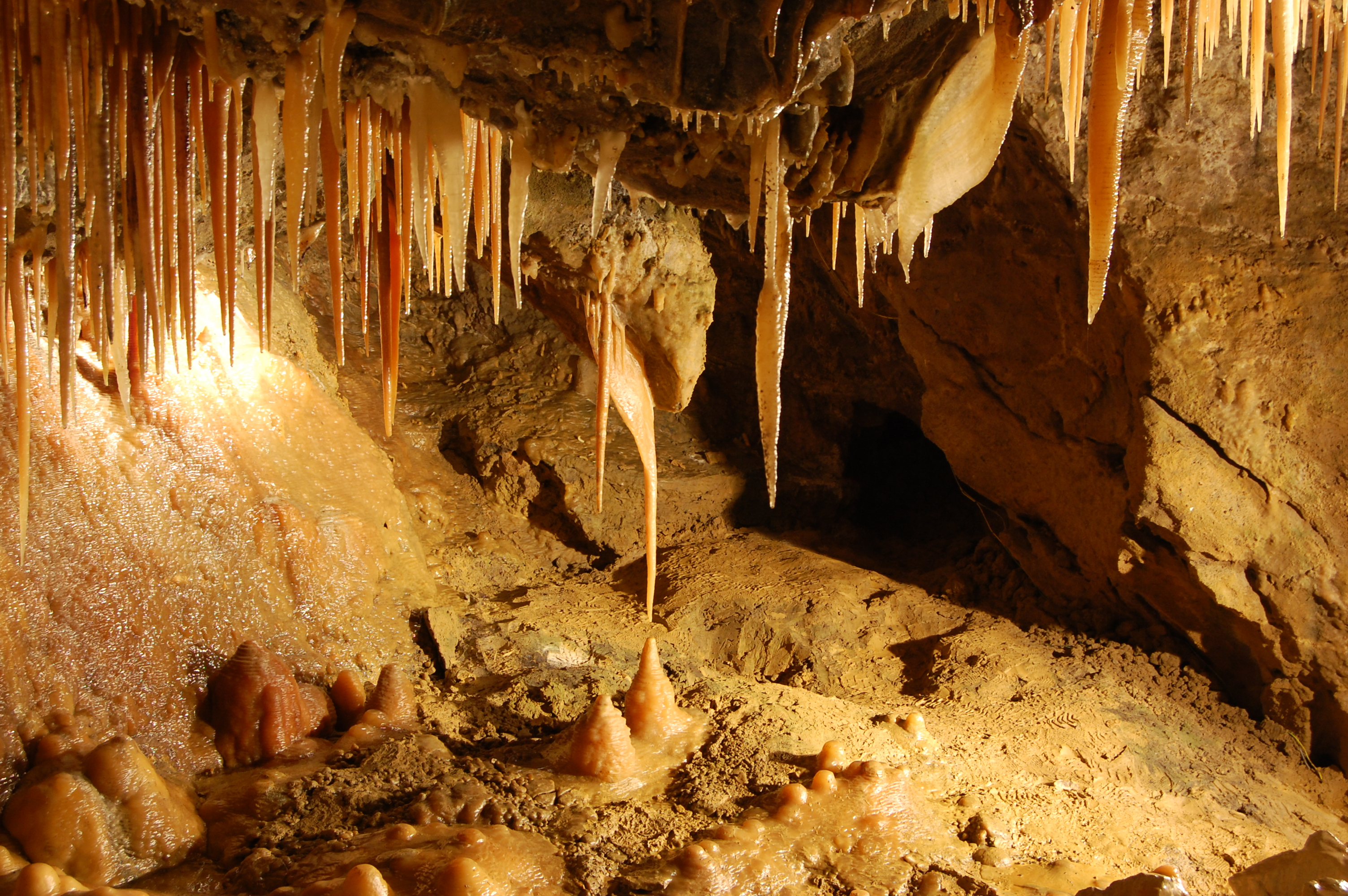 Interior of Treak Cliff Cavern, Derbyshire, England. The large feature, upper-centre, is named "The Ram's head'. The stalactite attached to it is known as "The Stork" and features in the cavern's logo.